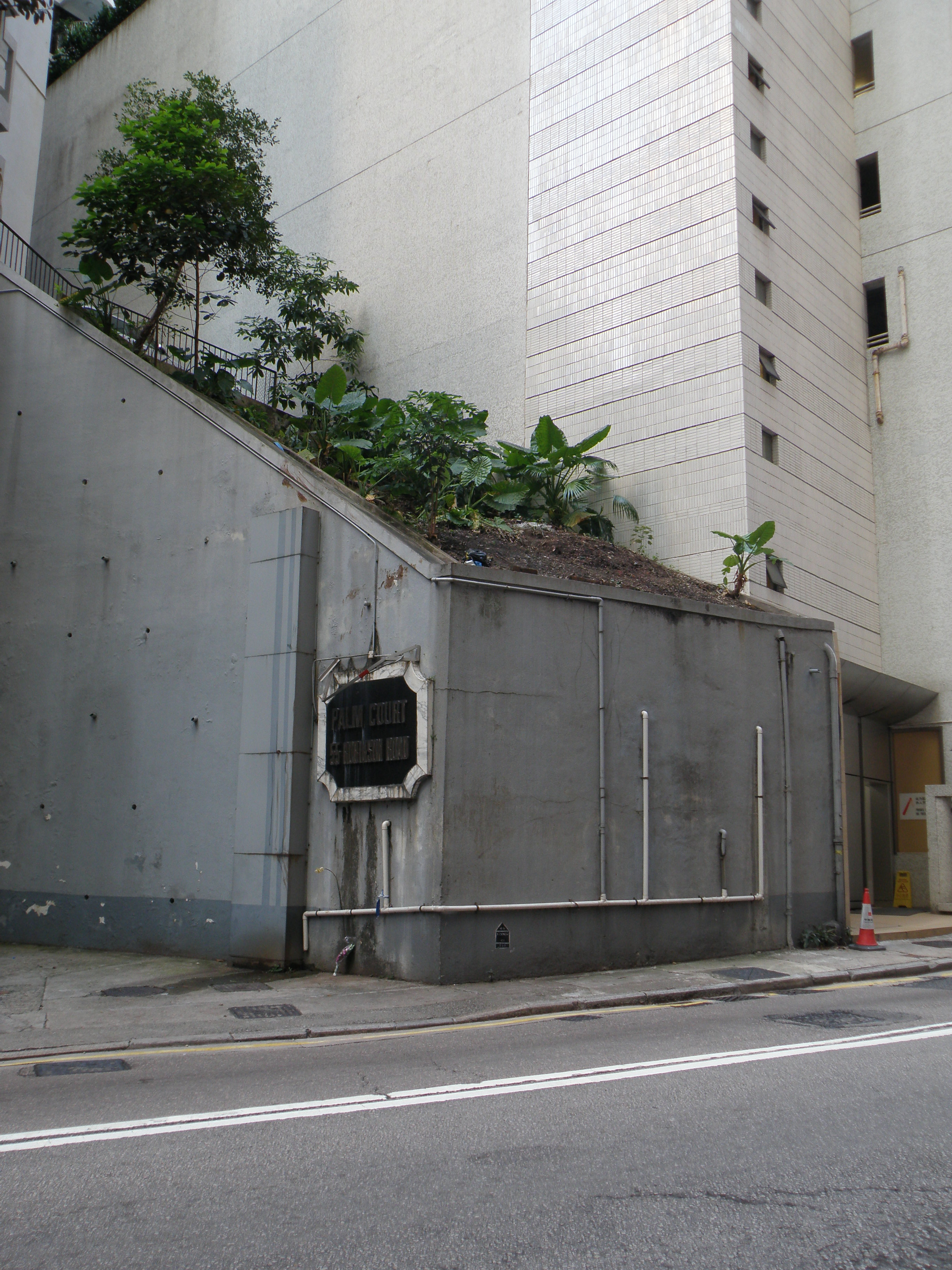 August 2014 Tree collapsed location in Robinson Road, Hong Kong.